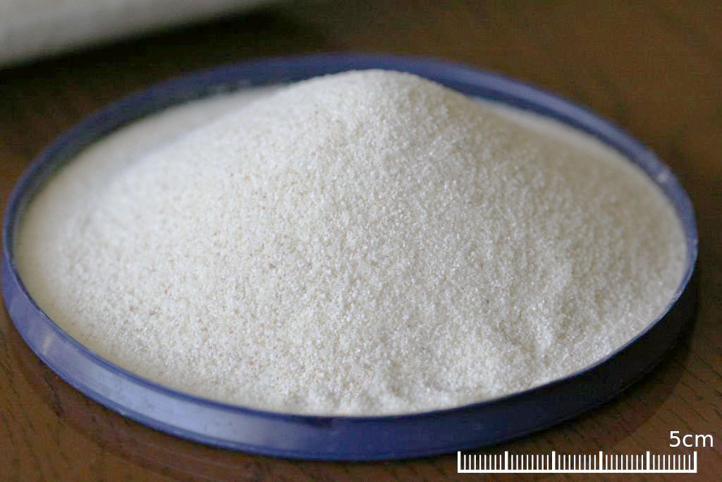 Semolina (Indian name is Rava)